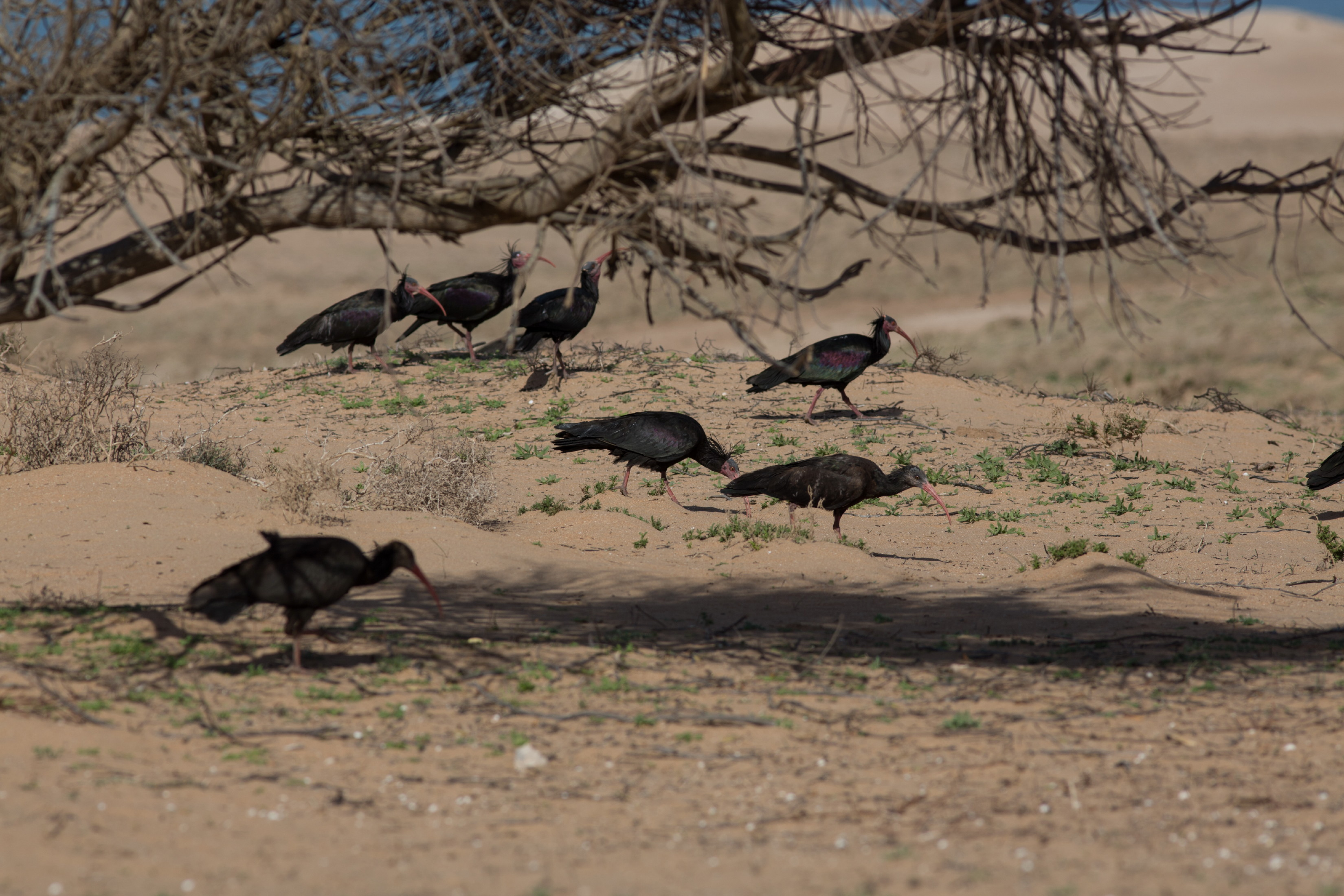 Hermit Ibises in Souss-Massa National park, Morocco.